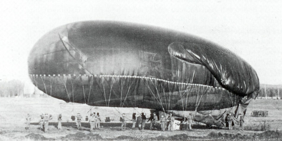 An airship belonging to Boden Fortress, used for artillery observation and reconnaissance.